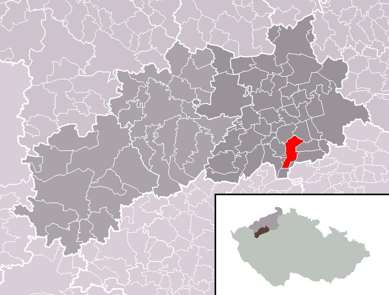 Location of Hříškov municipality within Louny District and administrative area of Louny as a Municipality with Extended Competence.